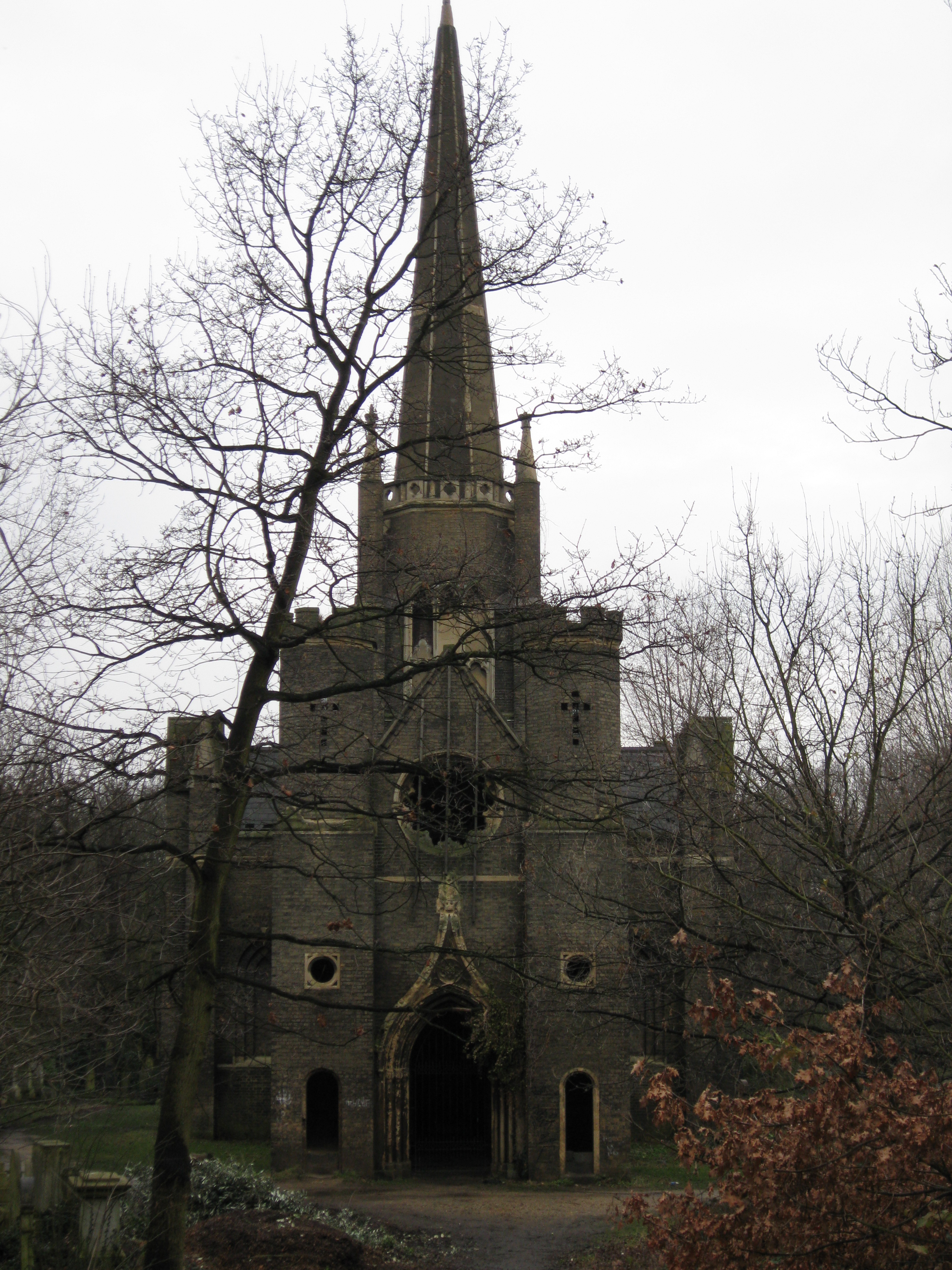 A view of the Anglican Chapel in Abney Park Cemetery